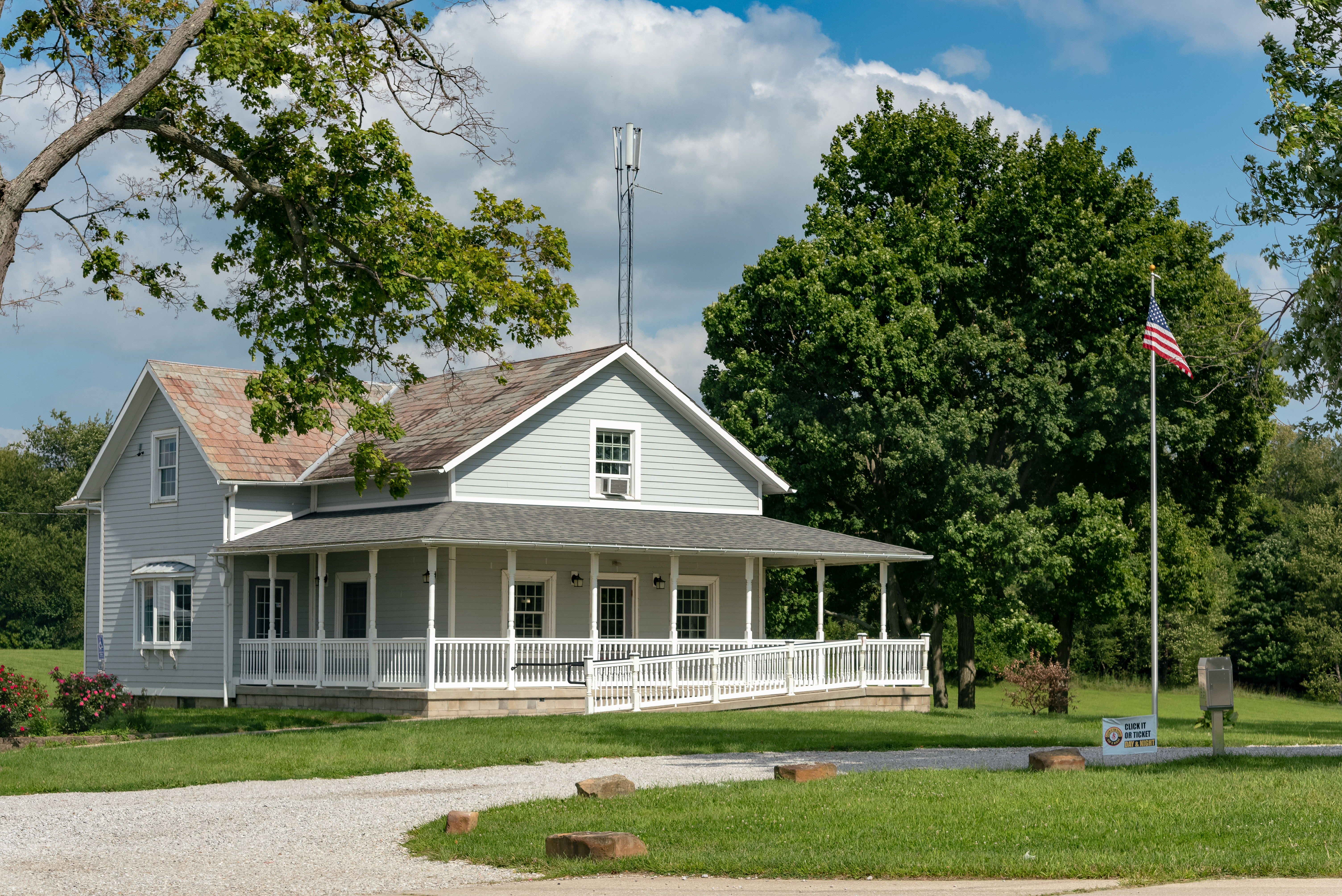 The mayors office and village administrative building in Lithopolis, Ohio.